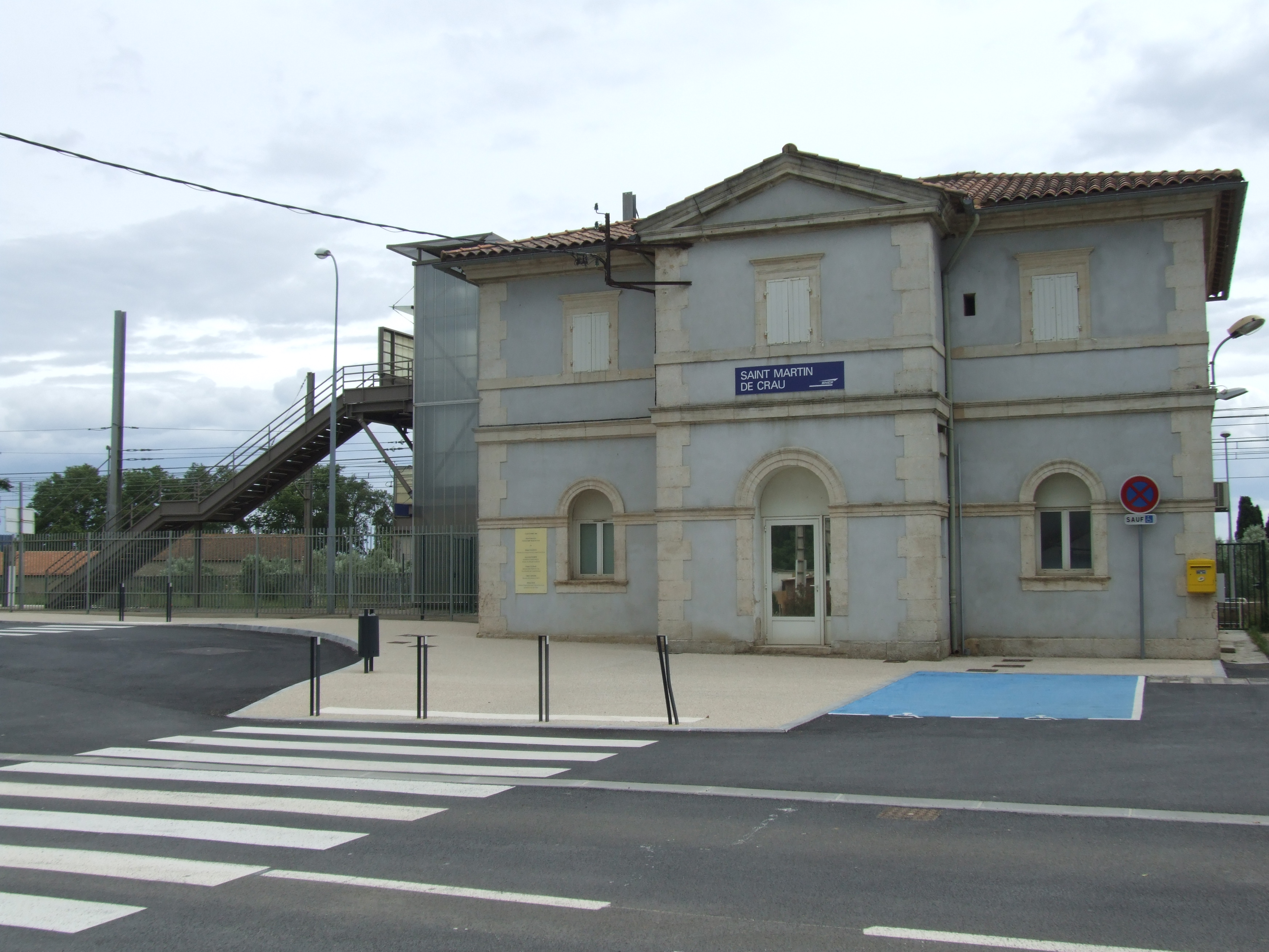 Saint-Martin-de-Crau railway station in Bouches-du-Rhône, France.